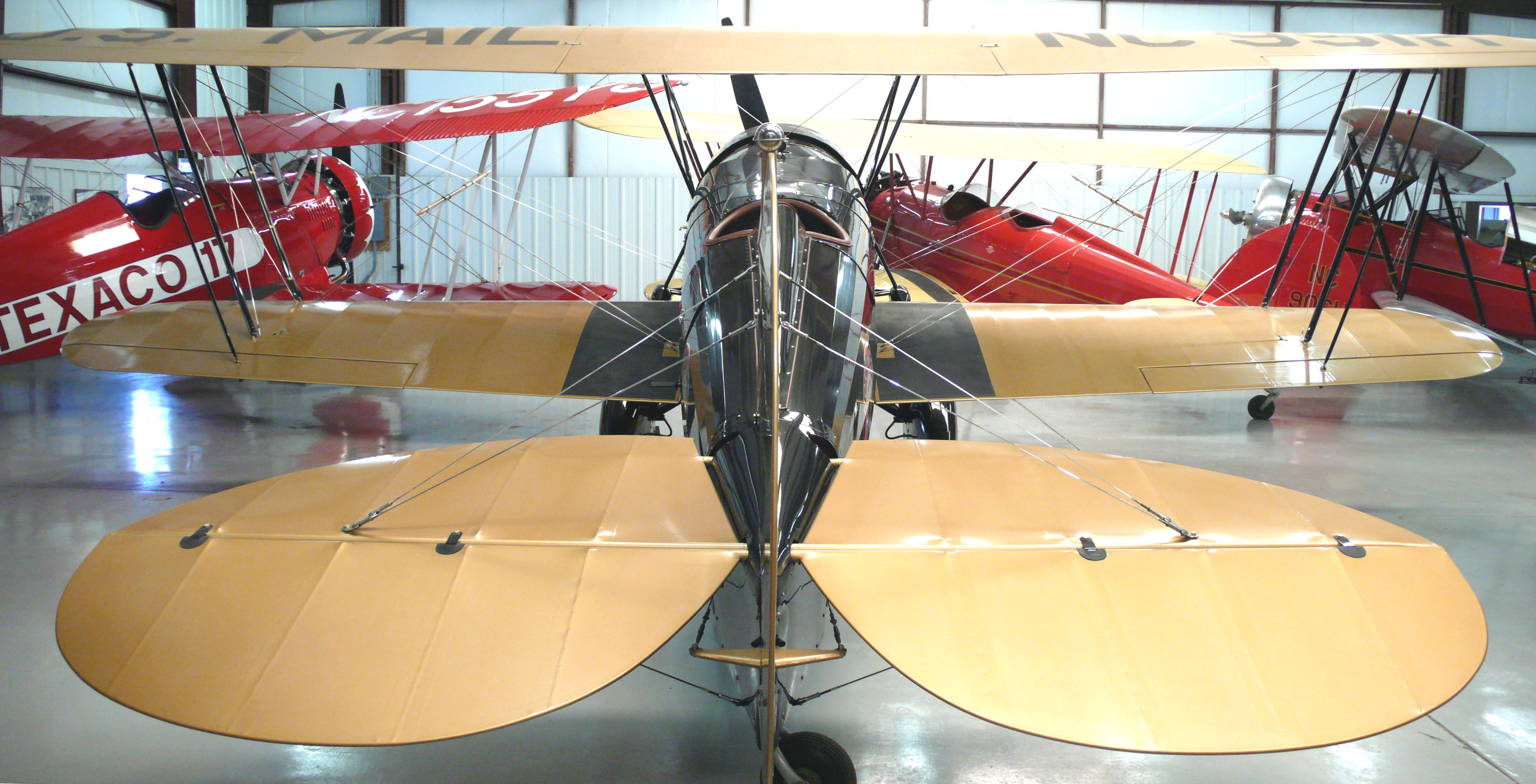 Waco JYM (NC991H), in hangar at the Historic Aircraft Restoration Museum, St Louis